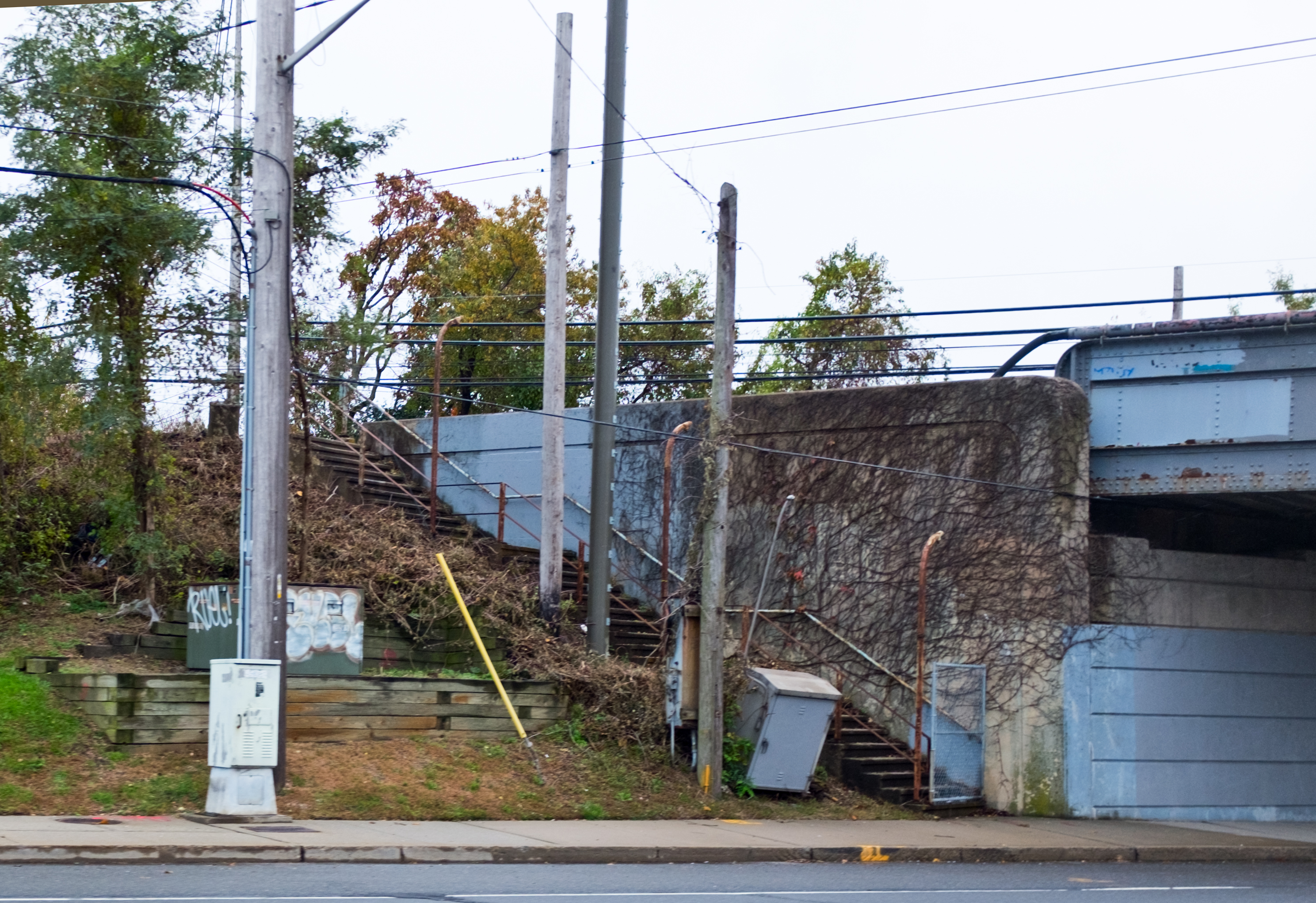 Remains of the staircase of the LIRR Republic station. The station was removed, but the staircases to access it still exist.